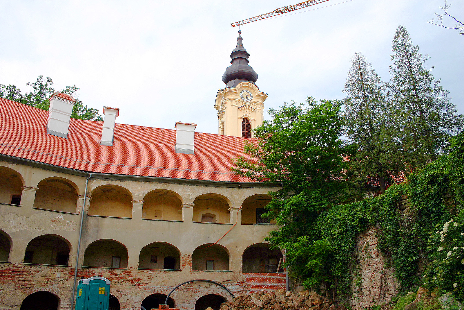 Castle in the town of Grad, Slovenia, one of the largest castles in the country.